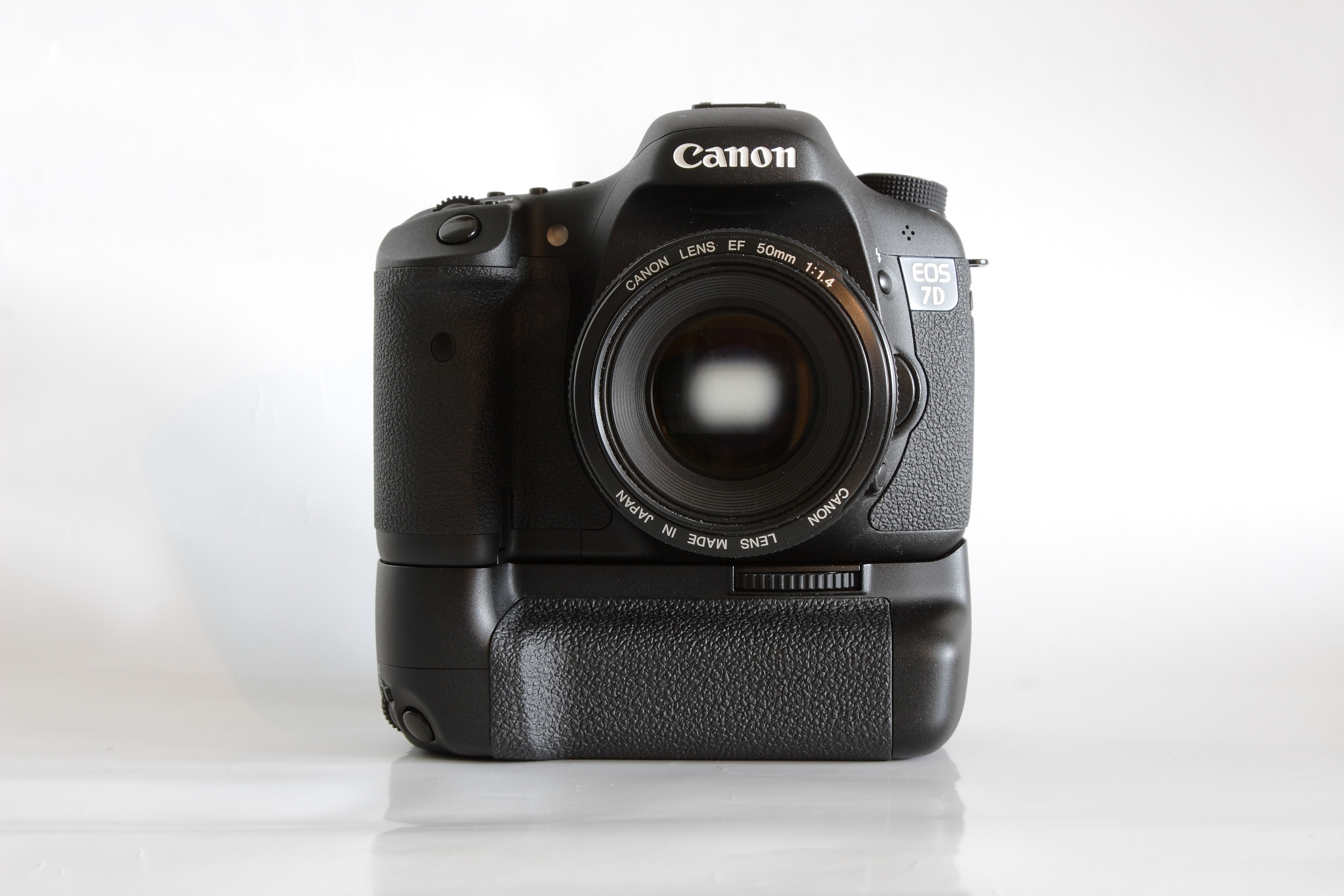 Canon EOS 7D with battery grip BG-E7 and EF 50mm F1.4 USM lens, frontal view.